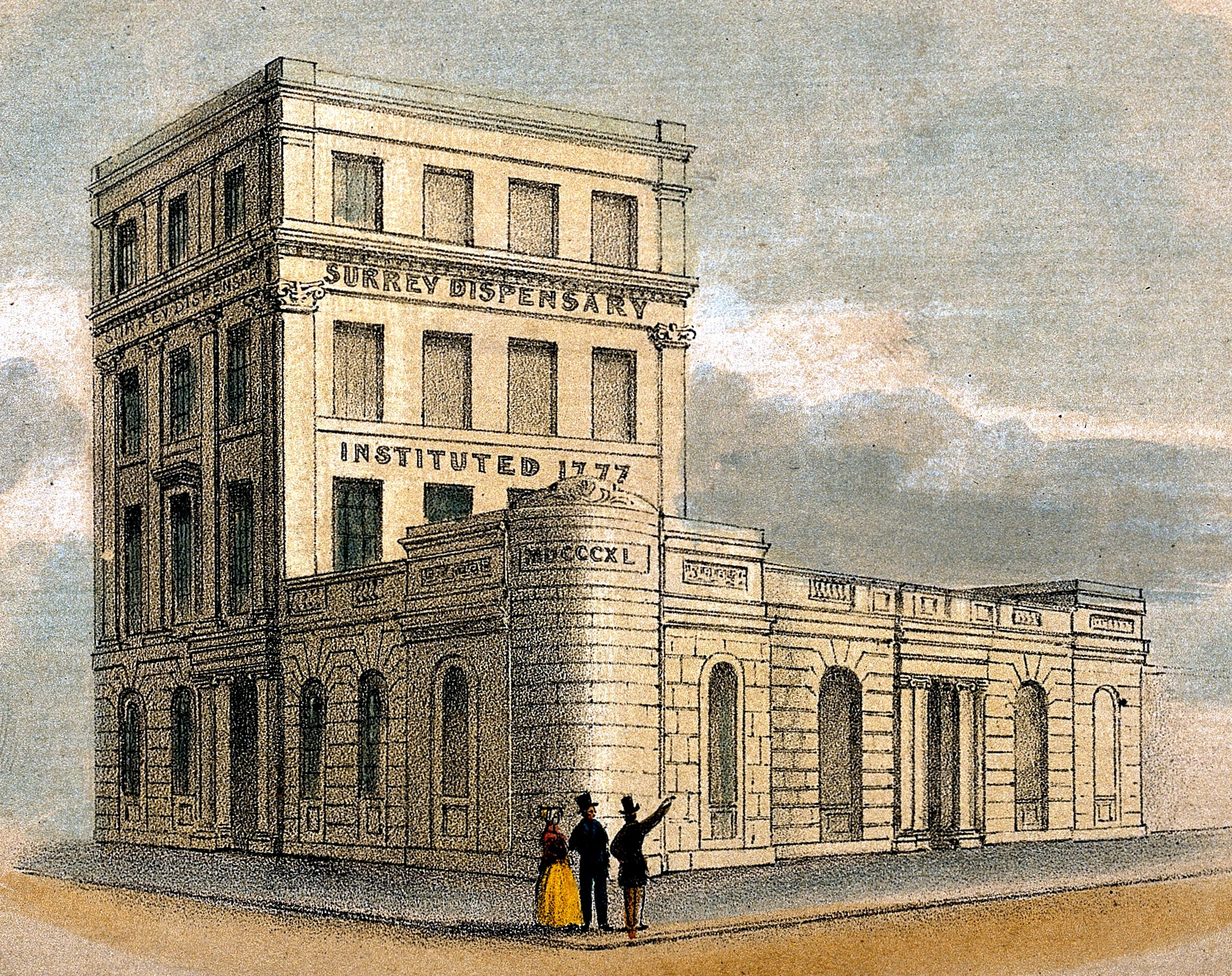 V0013755 The Surrey Dispensary, Great Dover Street, Southwark. Colour Credit: Wellcome Library, London. Wellcome Images The Surrey Dispensary, Great Dover Street, Southwark. Coloured lithograph by R. Alford, c.1840. 1840 after: R. AlfordPublished: - Copyrighted work available under Creative Commons Attribution only licence CC BY 4.0